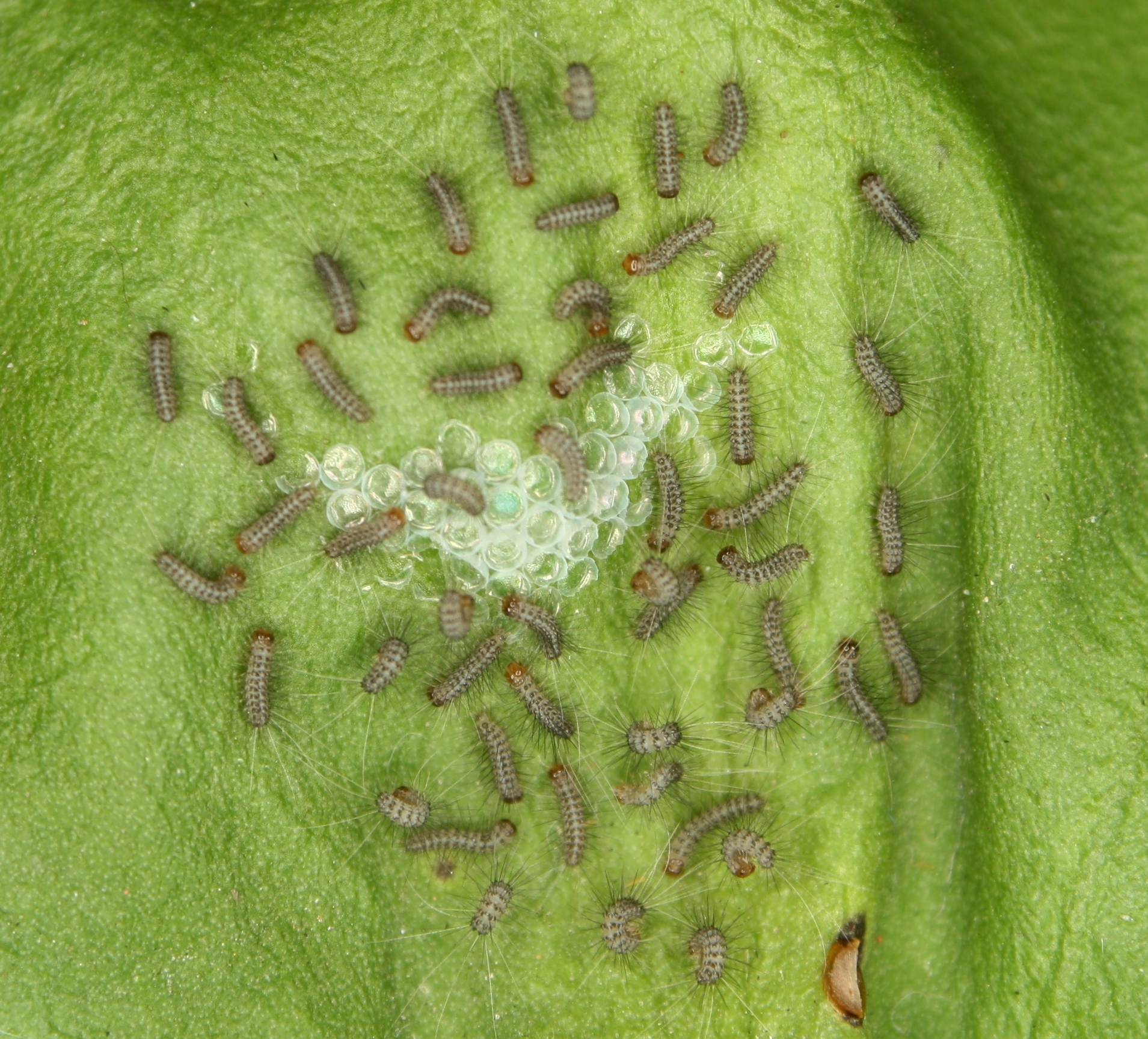 Caterpillars of Parasemia plantaginis after hatching.